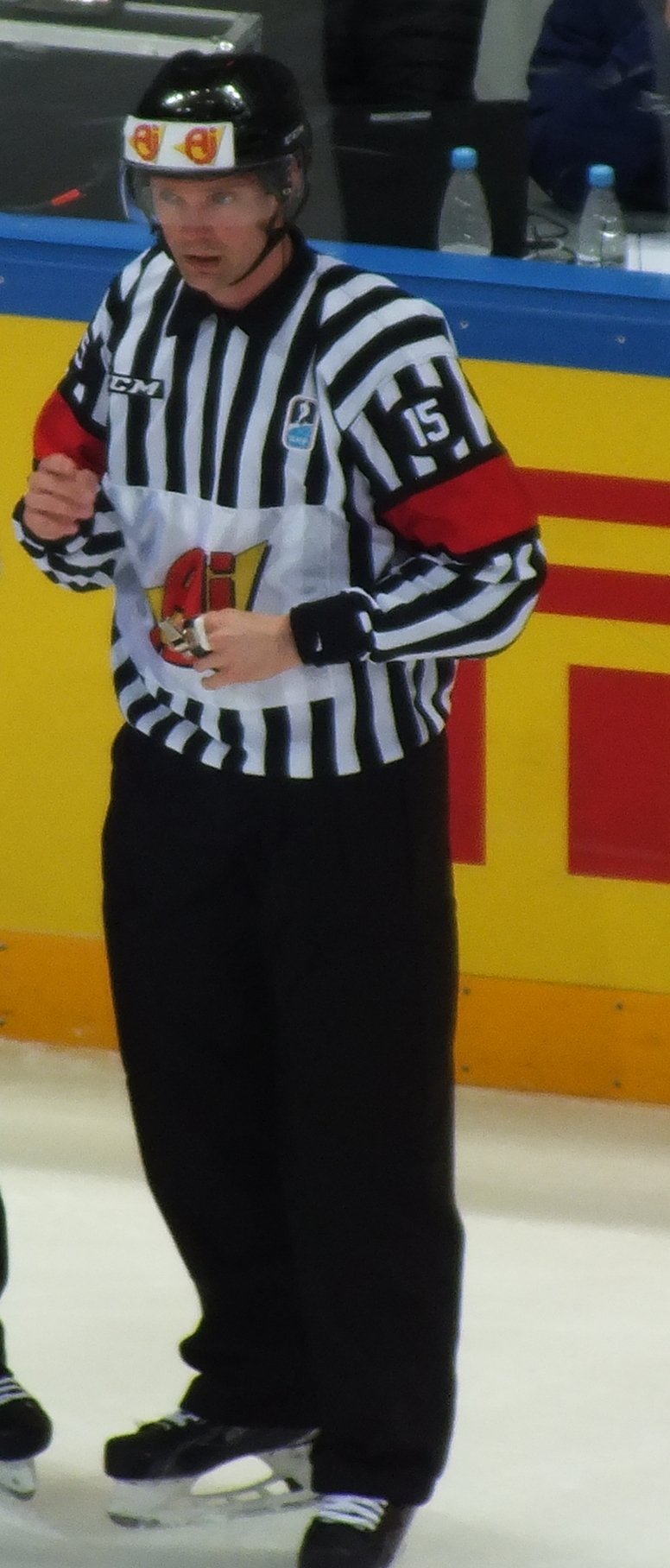 2016 IIHF World Championship - Norway vs. Denmark (07.05.16).